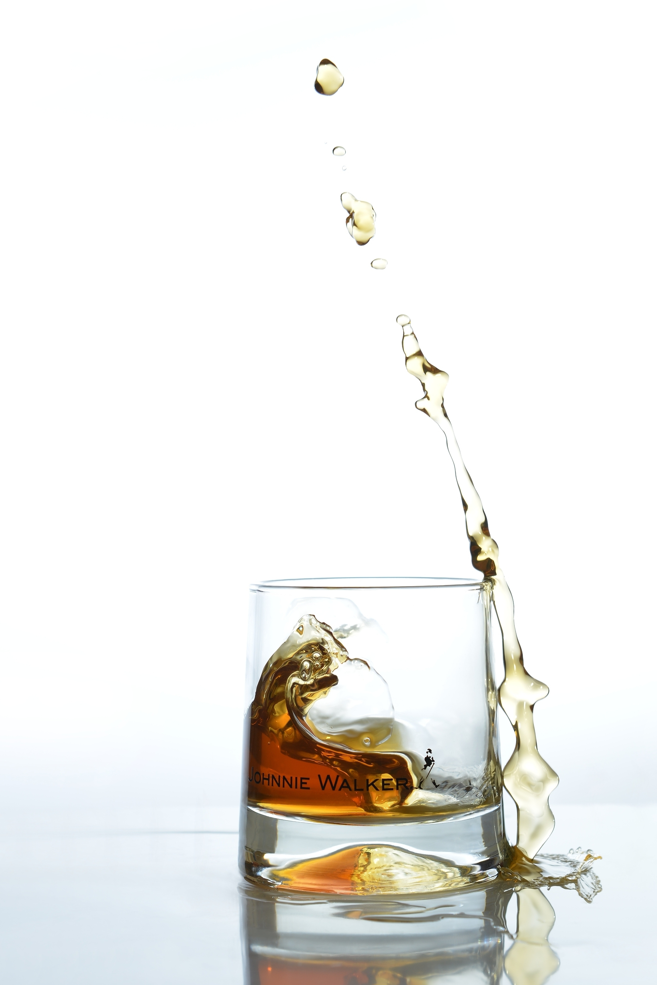 Chronophotograph at high speed. Johnnie Walker splash without any montage! Glass was glued to an inclined plane, which was dropped to create the splash